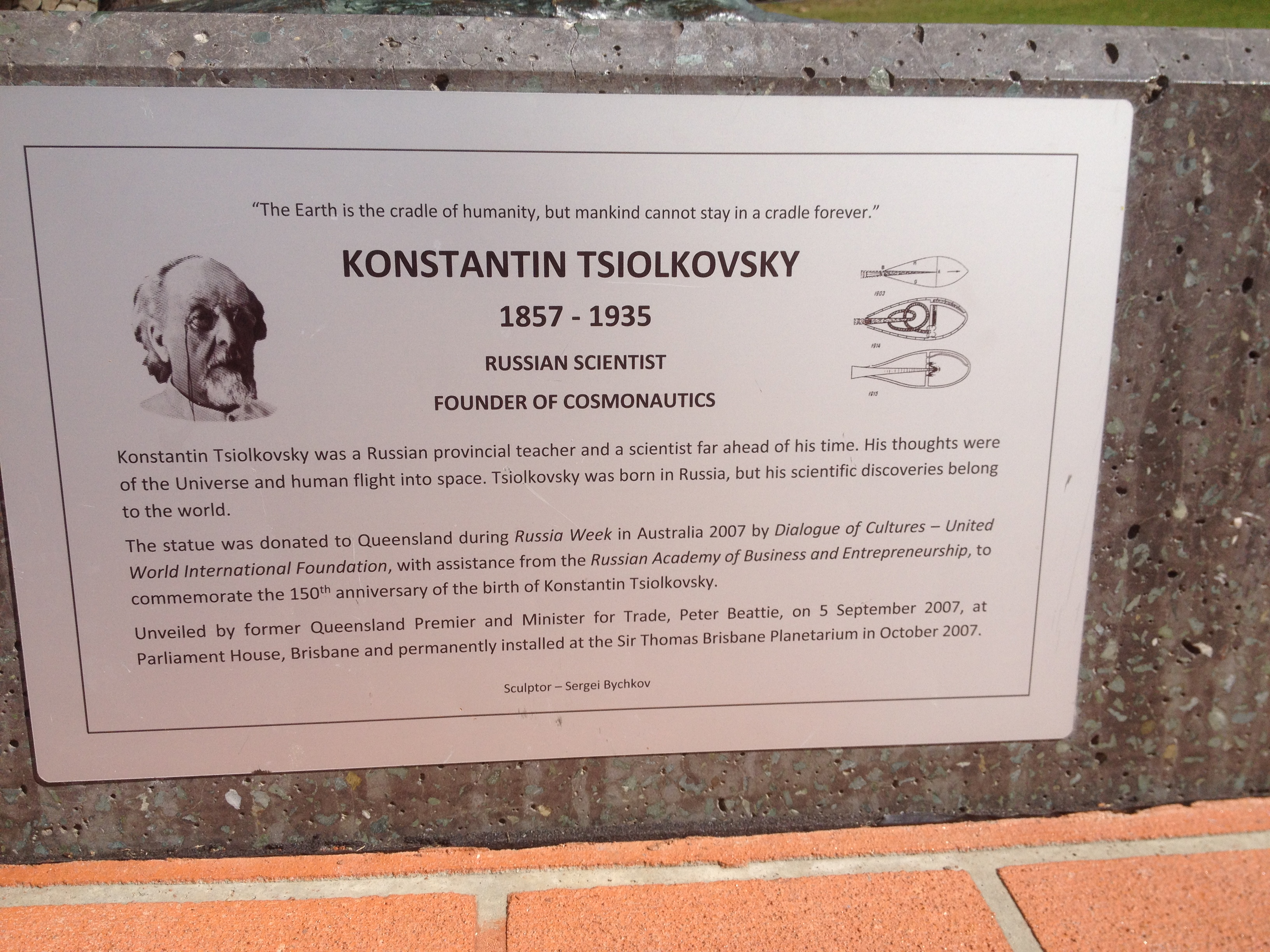 Konstantin Tsiolkovsky Monument, Brisbane (2007), located opposite the Sir Thomas Brisbane Planetarium, Mount Coot-Tha Rd, Toowong, Queensland